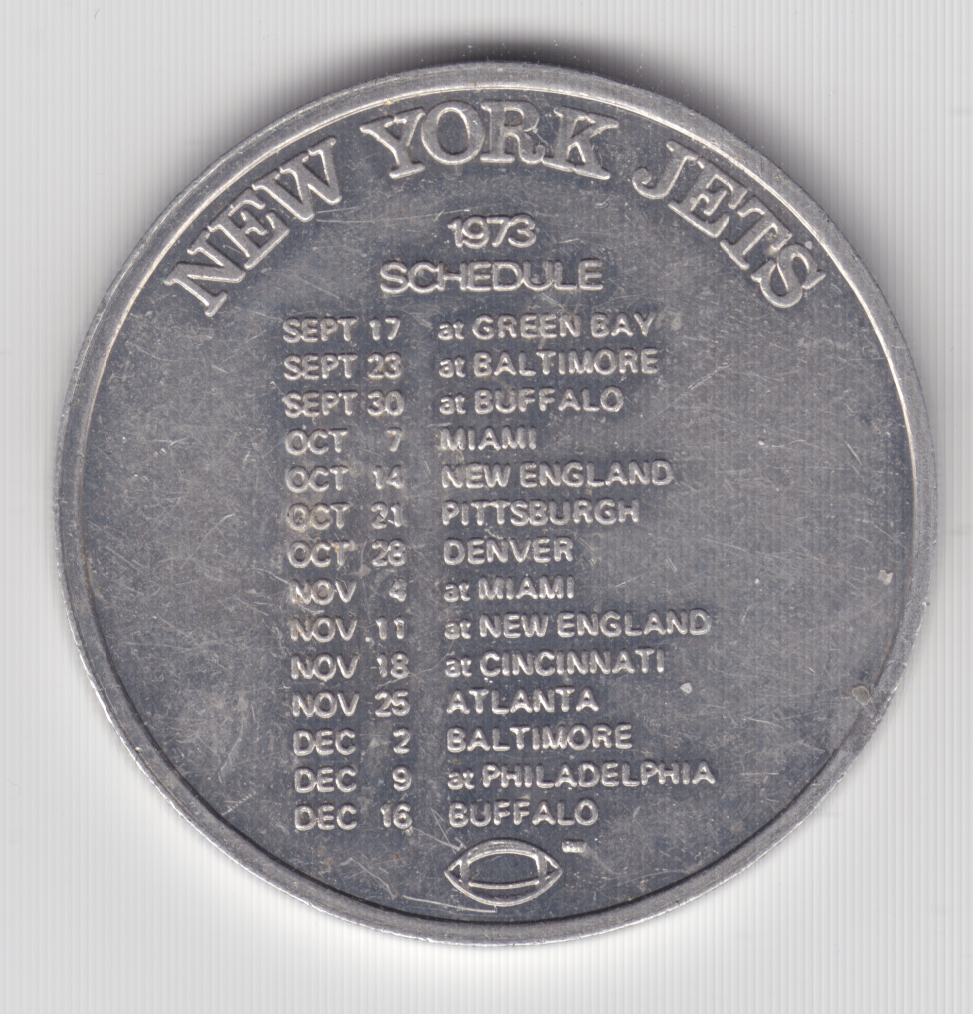 Johnny Walker Red Jets schedule medal (logo is on other side)